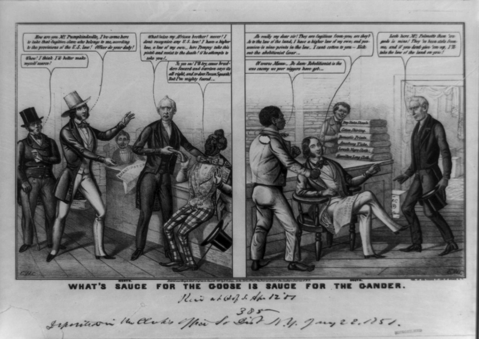 During the 19th century, abolitionists and slaveholders were at odds over fugitive slave laws, which allowed slave owners to arrest alleged runaway slaves. The laws were sometimes exploited to kidnap falsely accused free blacks. Free states tried to protect escaped slaves by refusing to obey these laws. This print by E. W. Clay, an artist who published many proslavery cartoons, supports the Fugitive Slave Act of 1850. In the cartoon, a Southerner mocks a Northerner who claims his goods—several bolts of fabric—have been stolen. "They are fugitives from you, are they?" asks the slaveholder. Adopting the rhetoric of abolitionists, he continues, "As to the law of the land, I have a higher law of my own, and possession is nine points in the law."